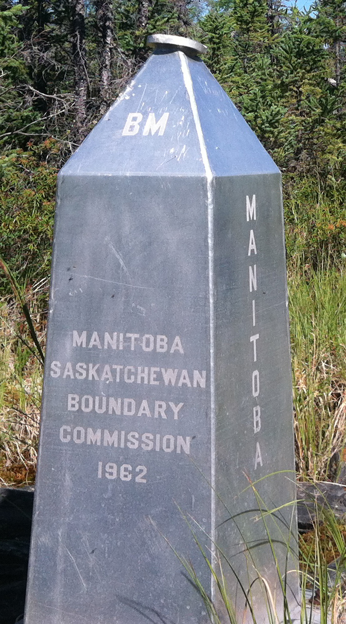 The obelisk monument marking the intersection of Manitoba, Saskatchewan, Northwest Territories, and hypothetically Nunavut. The face reading "Manitoba Saskatchewan Boundary Commission 1962", faces the Manitoba-Saskatchewan border to the south. The "BM" stands for the bench mark on the top.